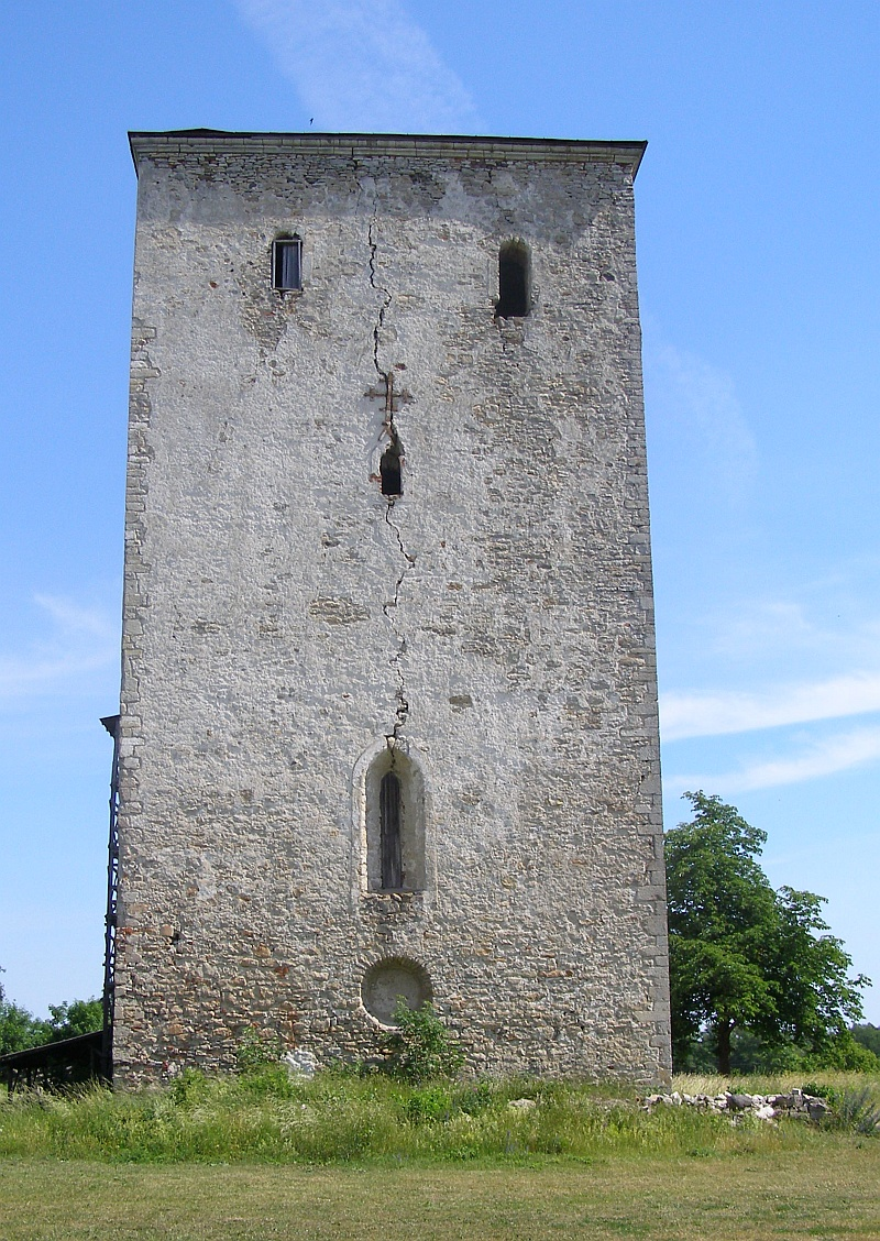 Tower of Pöide church on Saaremaa, Estonia. My photo from July 2006.